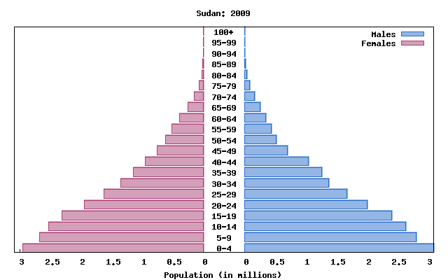 Population pyramid of Sudan, 2009